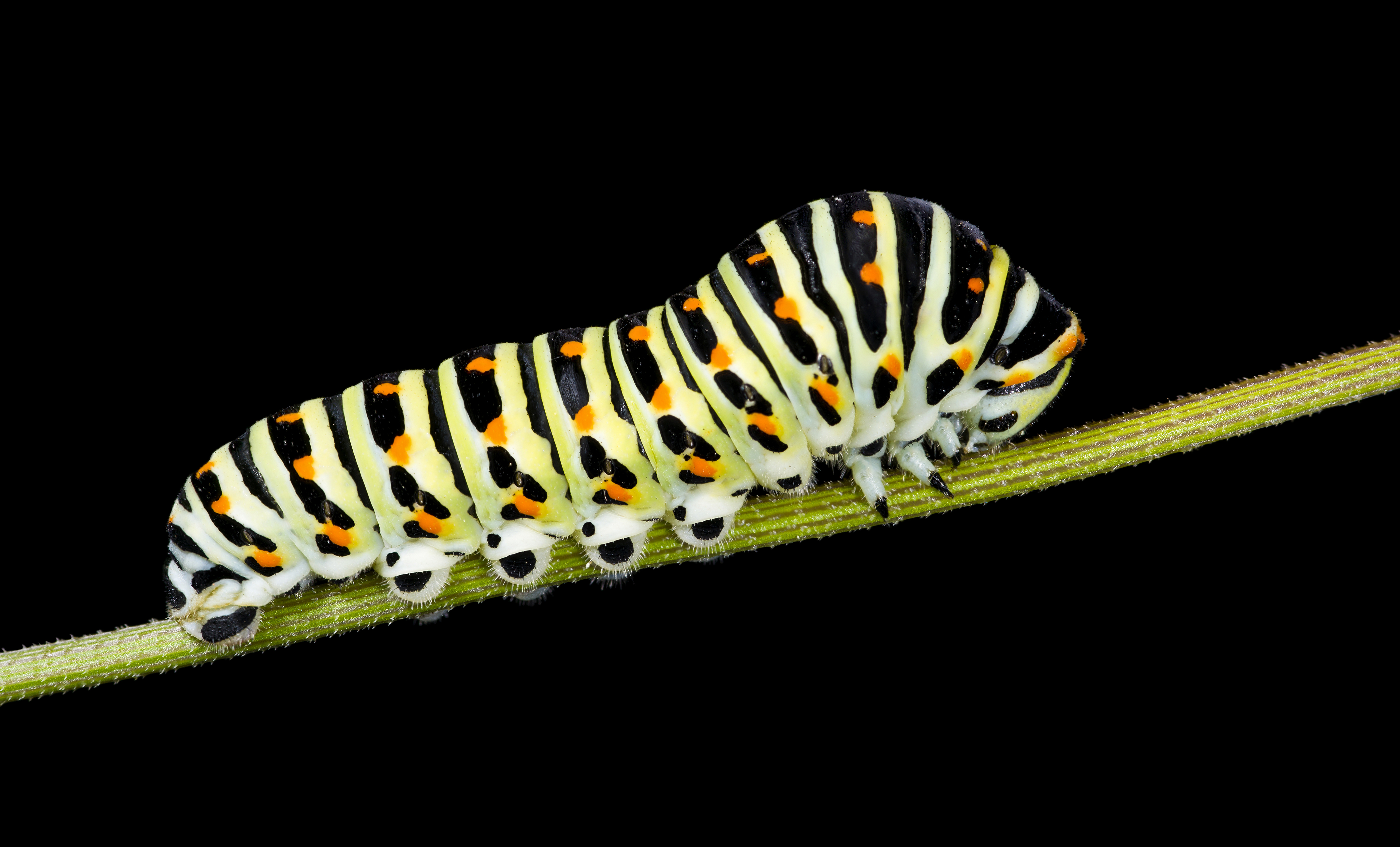 Caterpillar of the Old World Swallowtail - Size 42mm